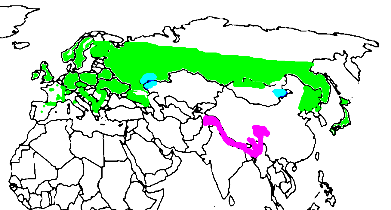 Range map of Common Treecreeper (green) and Hodgson's Treecreeper (pink) Certhia familiaris, resident Certhia familiaris, winter Certhia hodgsoni Based on Europe: Snow, David; Perrins, Christopher M (editors) (1998). The Birds of the Western Palearctic concise edition (2 volumes). Oxford: Oxford University Press. ISBN 0-19-854099-X. 1411â€“1416 Asia: Harrap, Simon; Quinn, David (1996). Tits, Nuthatches and Treecreepers. Christopher Helm, 177â€“195. ISBN 0-7136-3964-4.